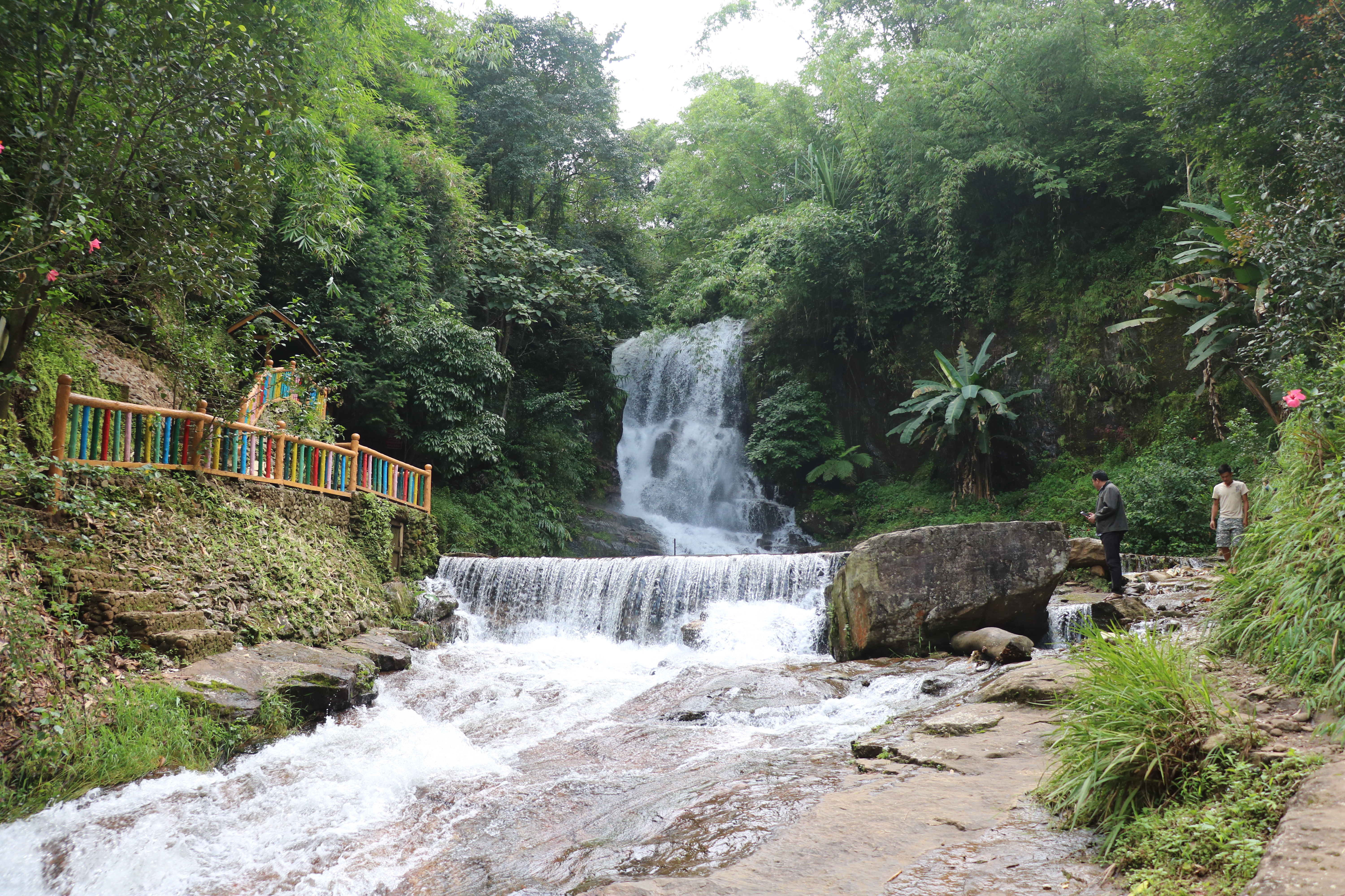 King Chaung Waterfall, Beside of Mogok - Kyaukme Road, near Mogok မြန်မာဘာသာ: ကင်းချောင်းရေတံခွန်